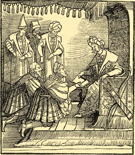 Hieronim Lasky, depoty of John Szapolyai, submit of Suleyman I